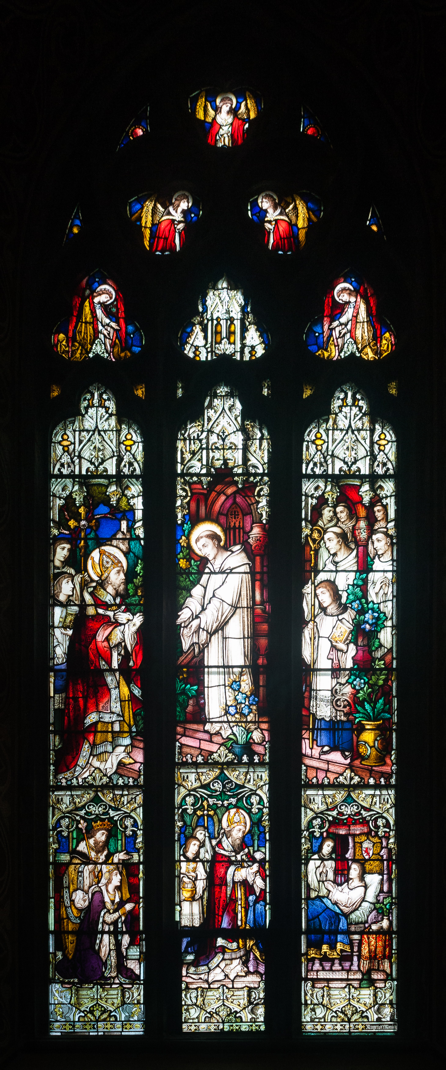 Stained glass window in the south wall of the west transept (liturgically north) by Mayer & Co., Munich, depicting St. Malachy and St. Bernard of Clairvaux in the upper scene and the cure of the prince by St. Malachy in the lower scene. The signature “Mayer & Co. Munich” is to be found in the lower right corner.